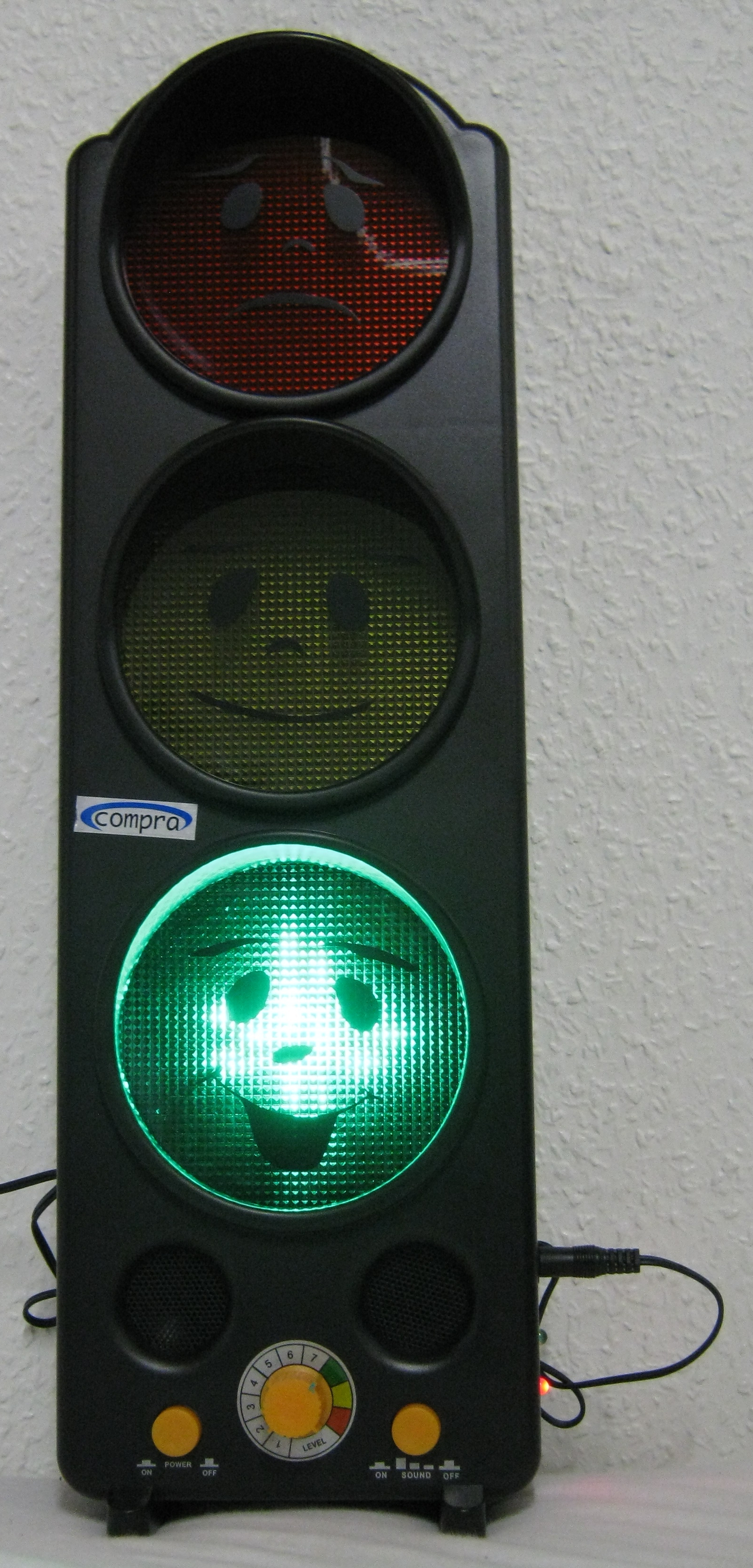 noisy traffic lights to display high interior noise levels in classrooms